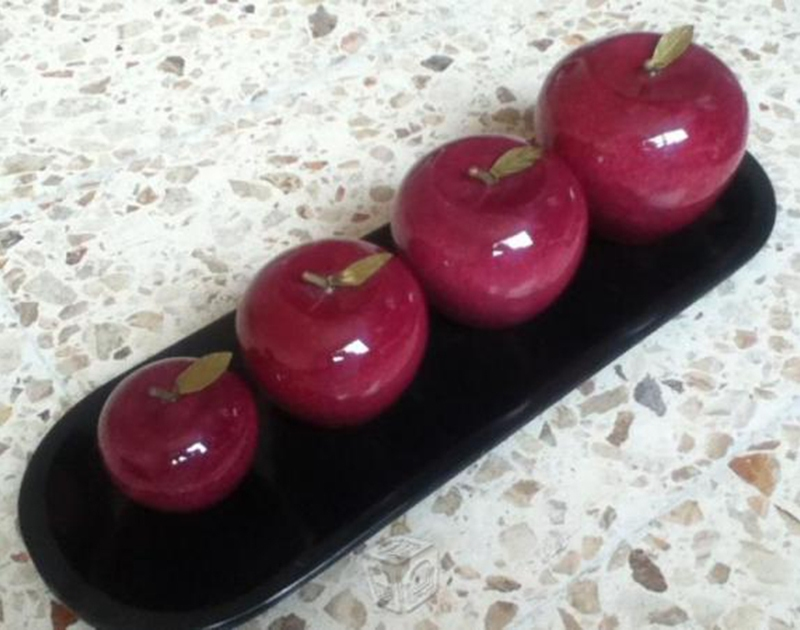 Handicraft - Red onyx